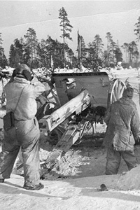 Swedish volunteers in the Finnish Winter War firing a gun.